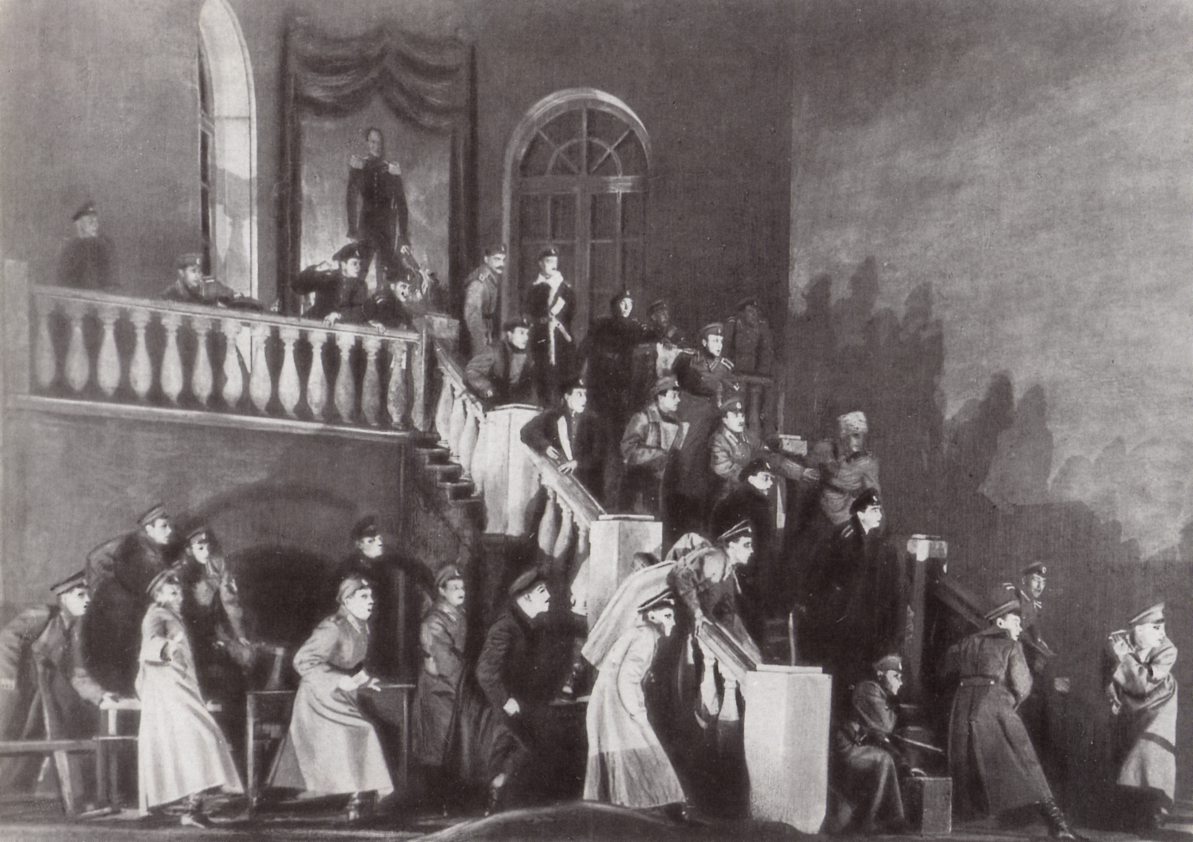 Mikhail Bulgakov's (Михаи́л Афана́сьевич Булга́ков) play The Days of the Turbins («Дни Турбины́х», 1926), directed by Constantin Stanislavski. Photograph from the Moscow Art Theatre production.